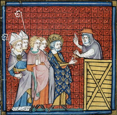 Cardinal Simon de Brie (later Pope Martin IV) preaching a crusade before Louis IX of France. (British Library, Royal 16 G VI f. 436v)